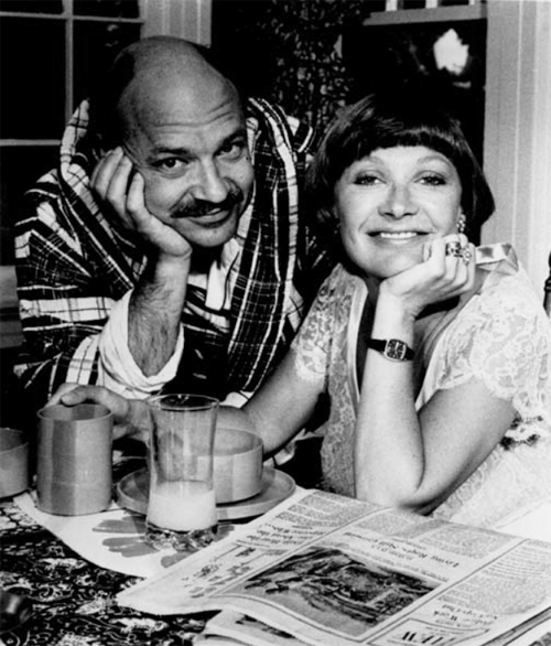 Actor Lorenzo Music and his wife Henrietta.